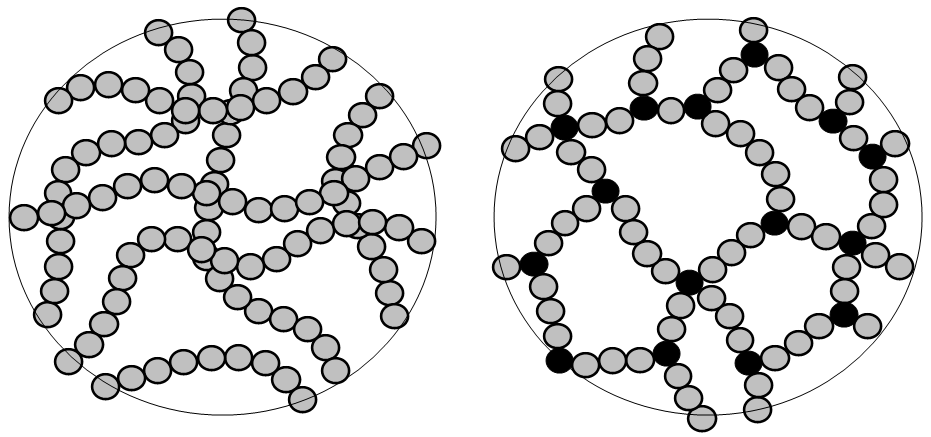 Schematic views: left, linear chains of macromolecules (case of a thermoplastic polymer); right, a three-dimensional macromolecule (case of a thermosetting polymer). The tri- and tetravalent cross-linking nodes are represented in black. Such a network is insoluble and does not melt. Dimension of a circle (monomer unit): approximately one ångström (Å).